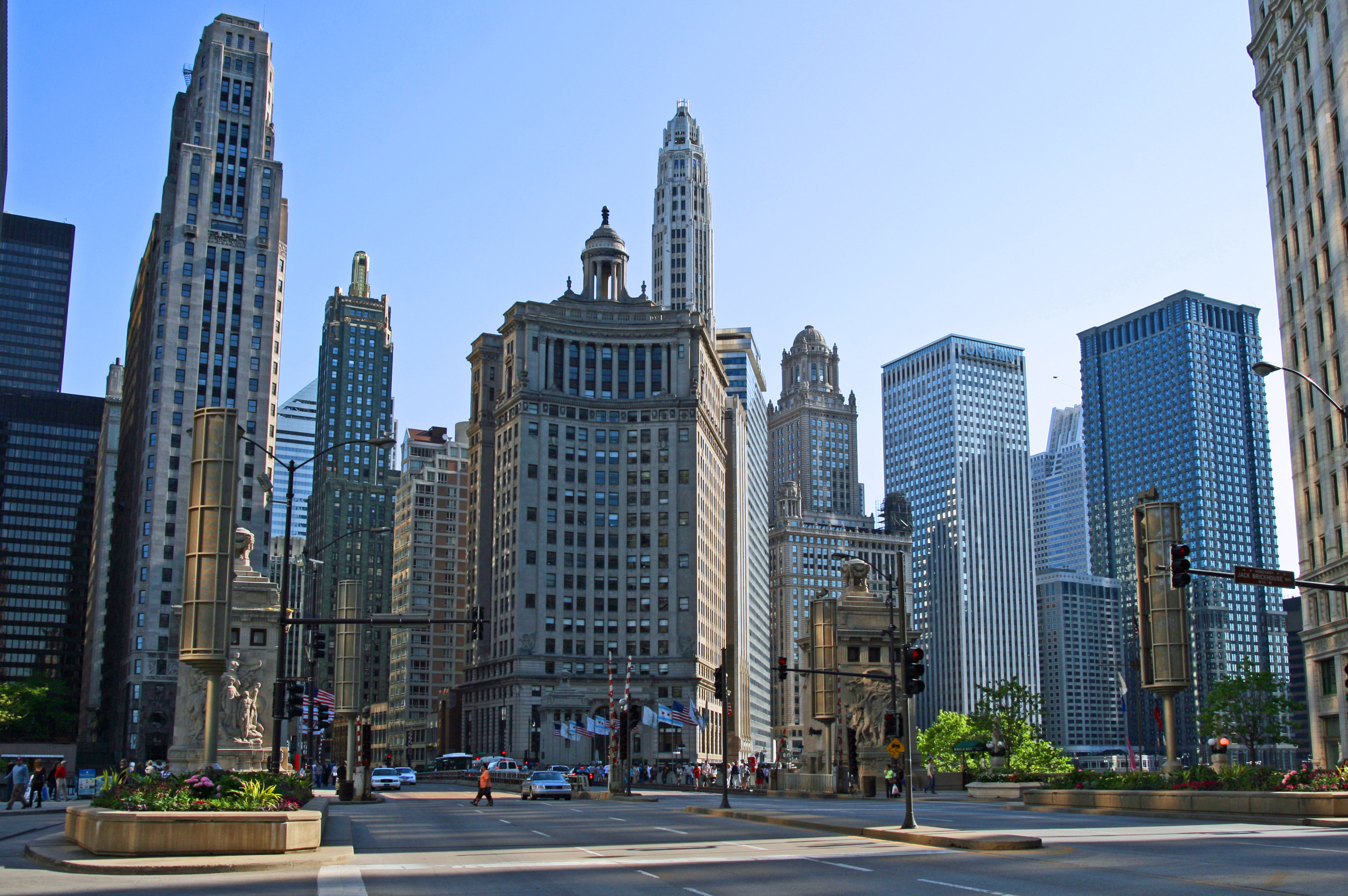 Cityfront Center, Chicago (Illinois)